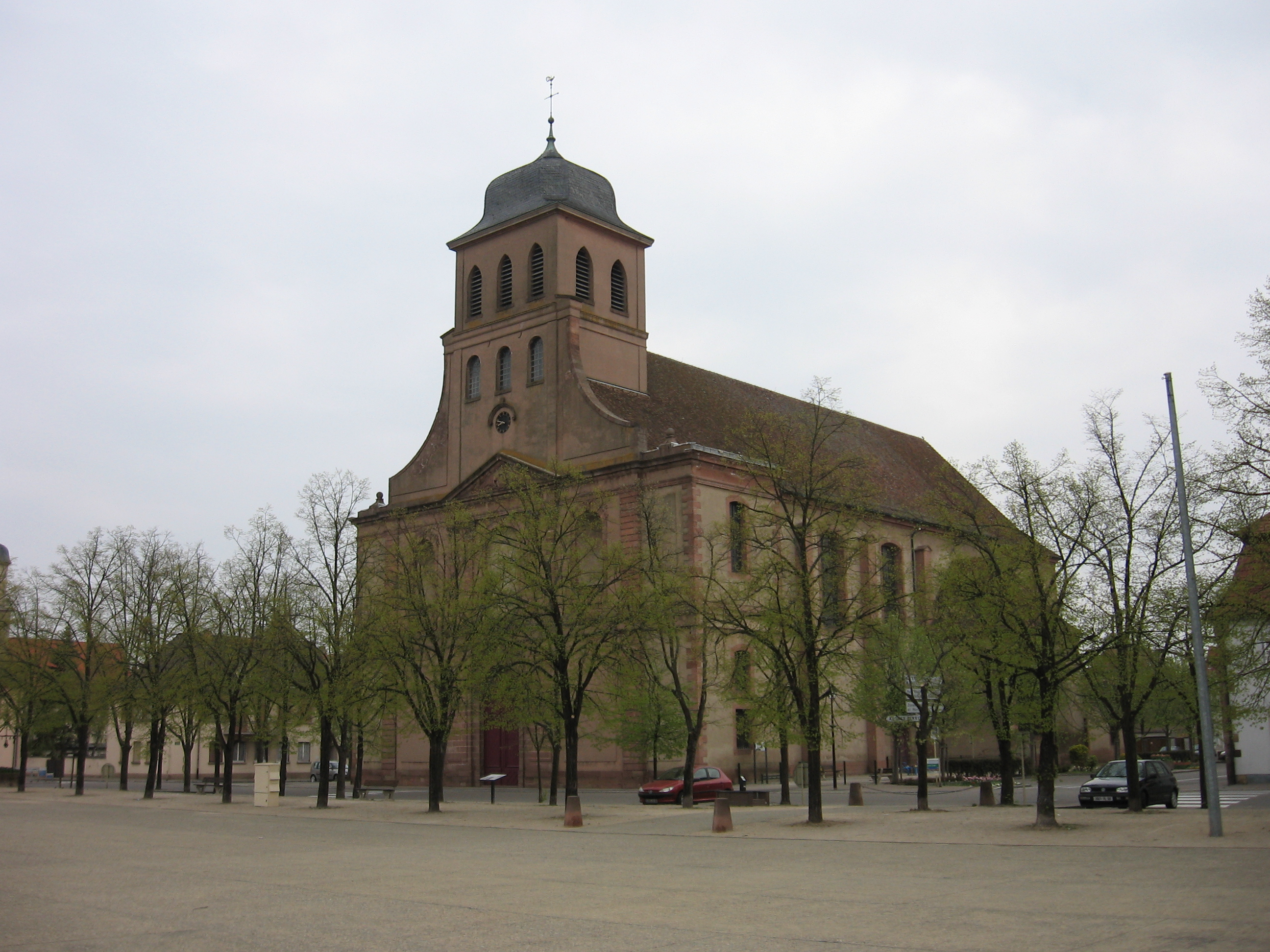 Neuf-Brisach, Church